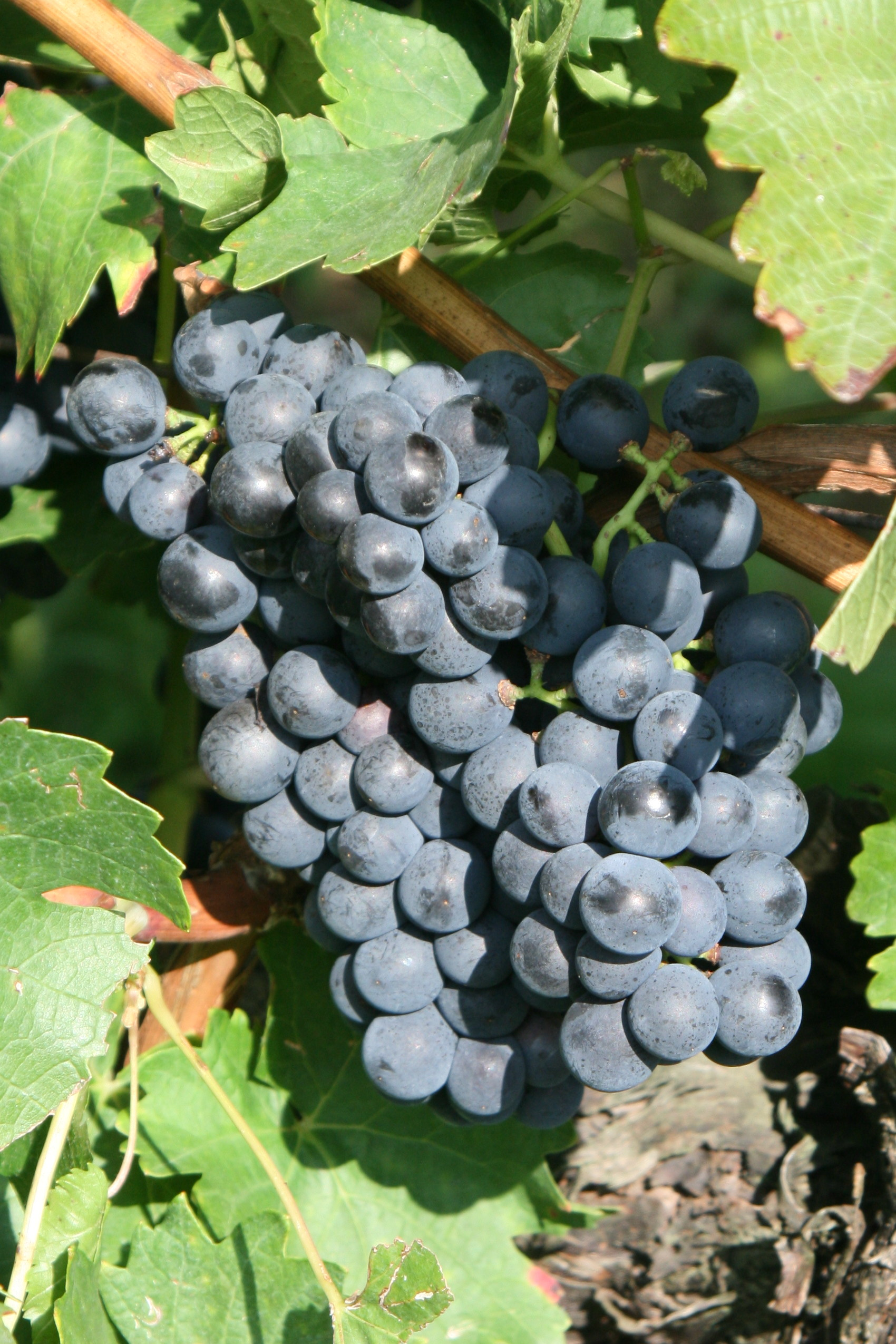 Grapes and leaves of the grape variety Blauer Portugieser, photographed at the viticulture trail on the Schemelsberg hill in Weinsberg